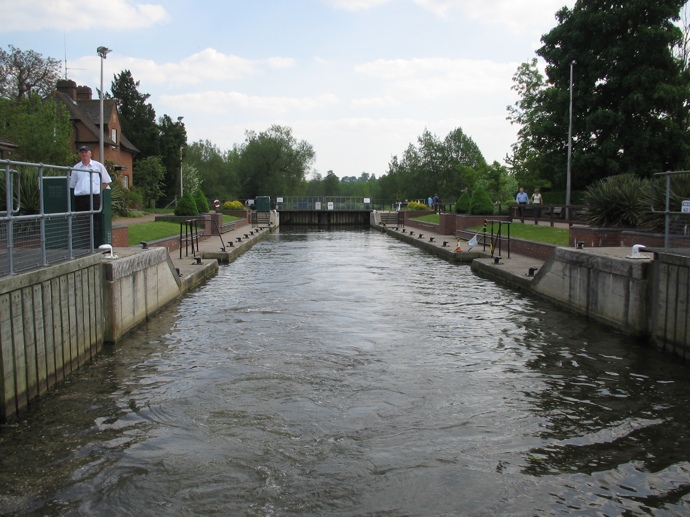 Hambledon Lock with upper gates open